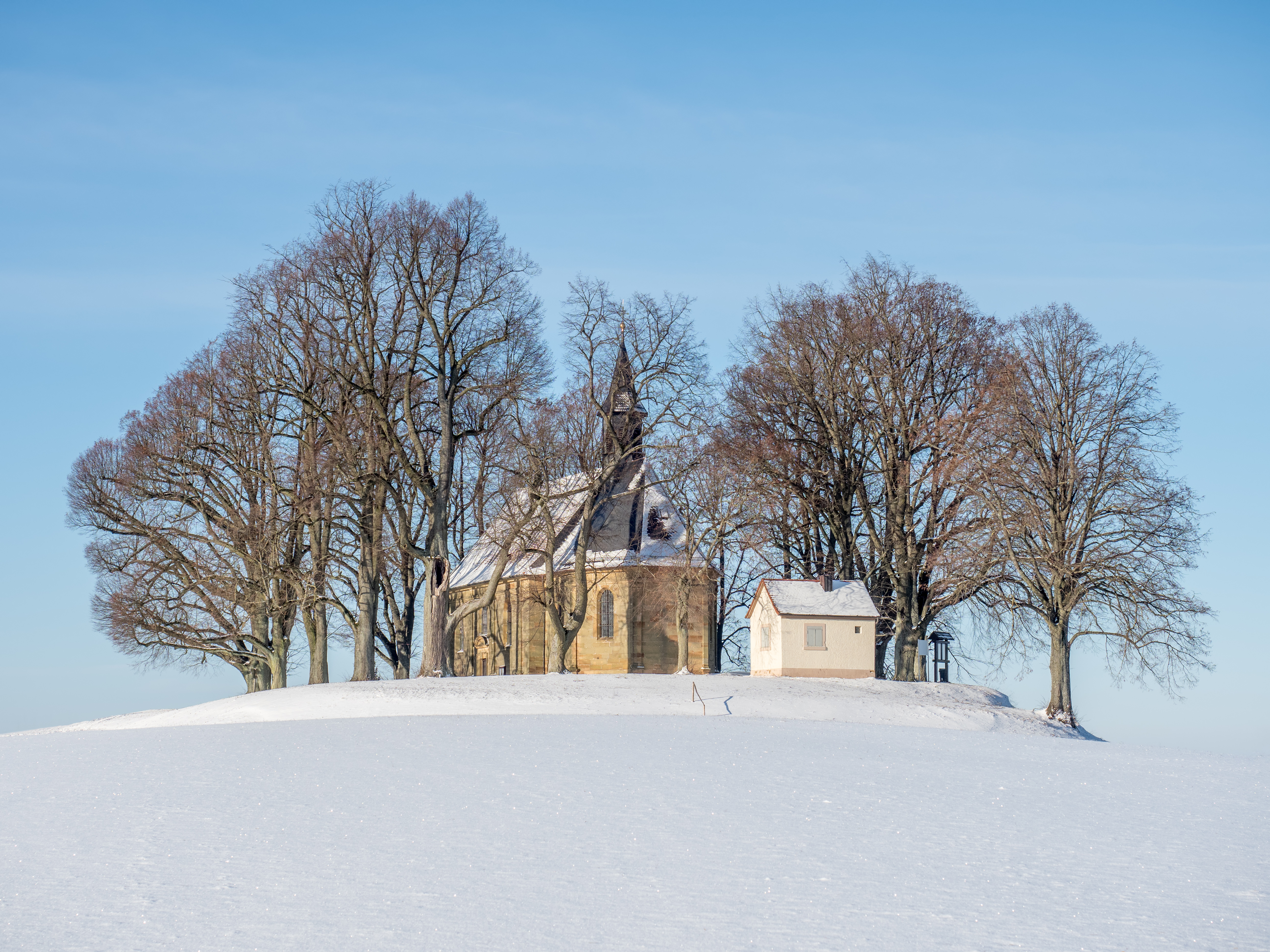 Catholic branch and pilgrimage church St. Veit on the Ansberg near Ebensfeld in Upper Franconia